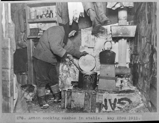 Anton Omelchenko cooking mashes in stable. May 23rd 1911